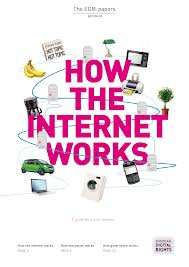 EDRi's booklet - How the Internet works